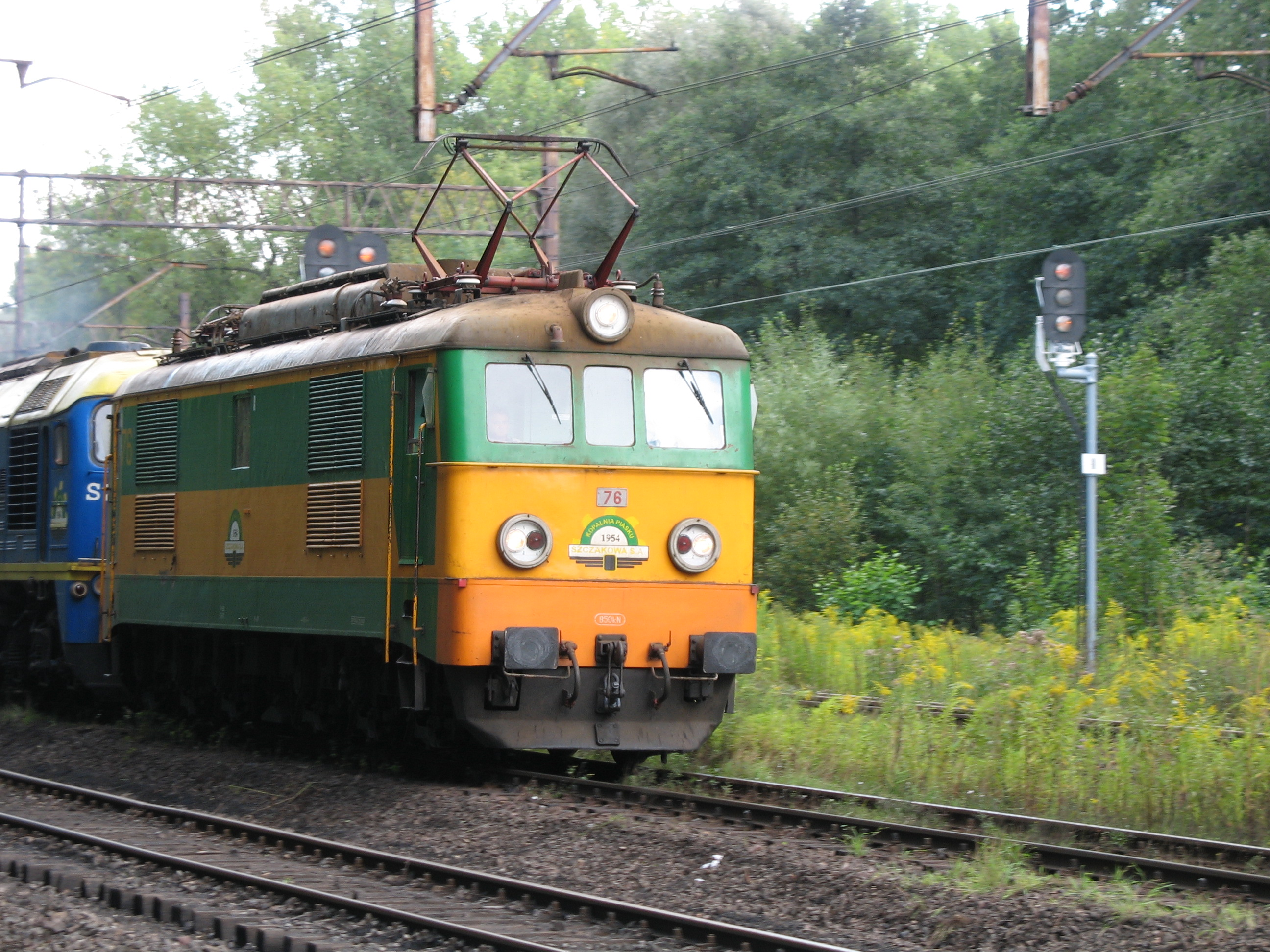 Electric locomotive 3E-76 (ET21).